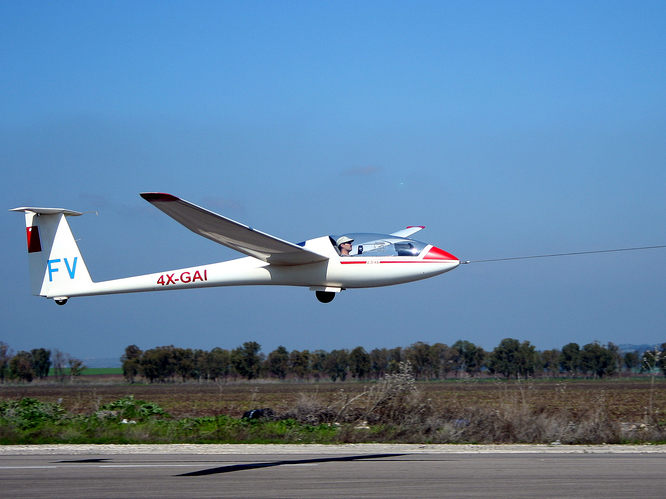 A Rolladen-Schneider LS-4 glider being pulled up in the air at Megido airstrip